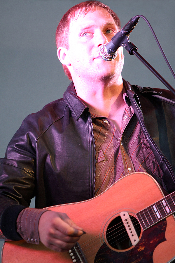 Thees Uhlmann, singer and songwriter of the german band Tomte, at a solo concert in the context of the Fête de la Musique on June, 21st 2008 in the Mauerpark Berlin.